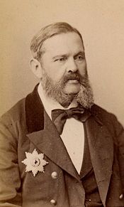 Prince Nicholas Troubetzkoy 1828-1900